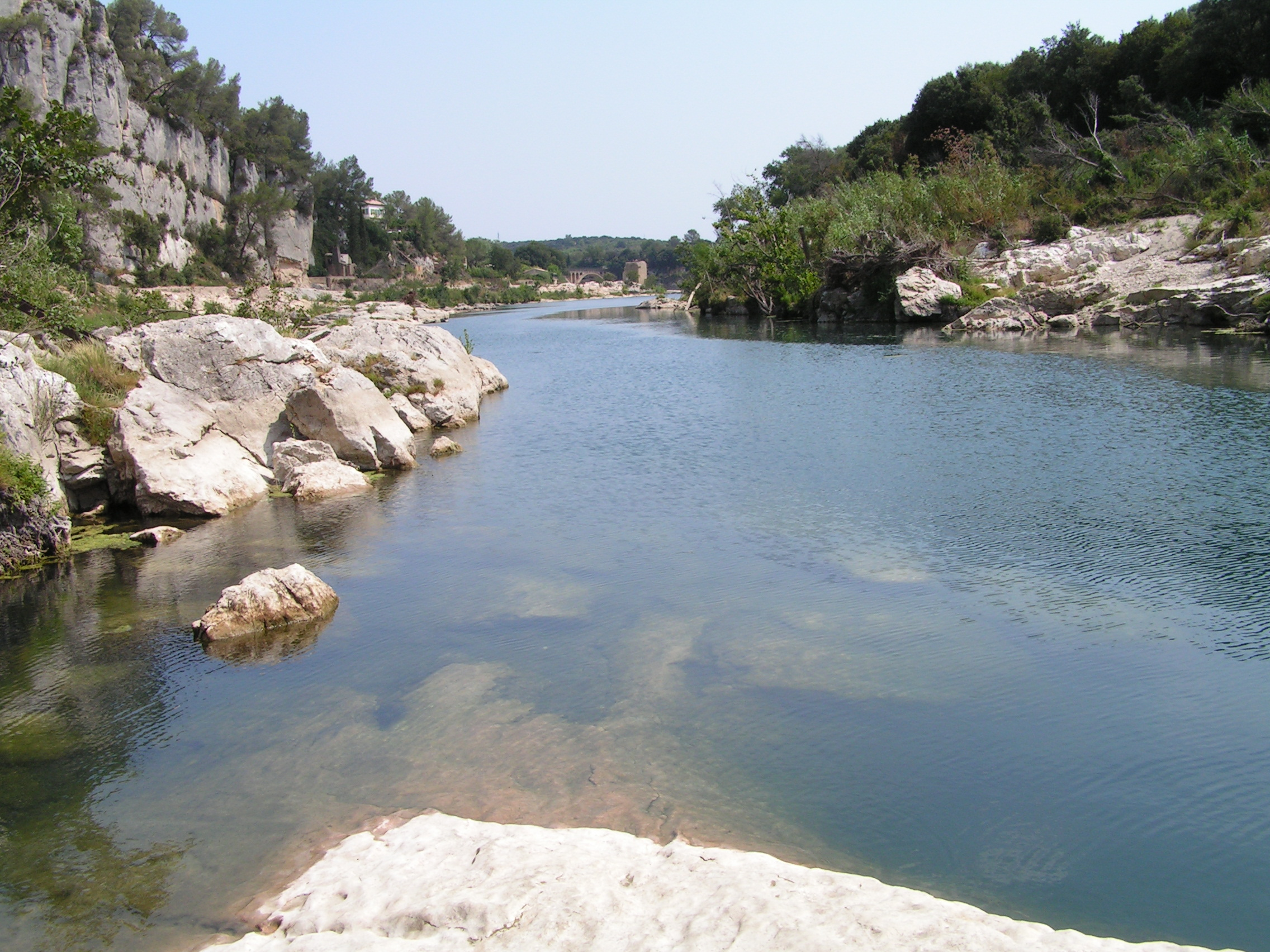 The River Gardon at Collias, France. View upstream, N-W direction, from about 1 km downstream from the bridge on the D3 road seen here in the background. This bridge links the avenue du Pont in Collias (left bank, north side of the river, here on the left handside of the picture) and avenue Joliclerc in La Torte (right bank, south side of the river, here on the right handside of the picture).